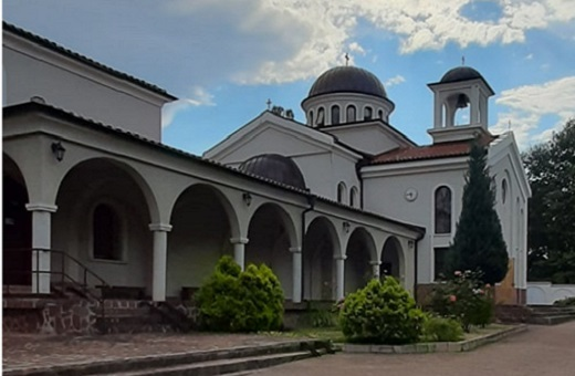 "Holly Spirit" Church, Sofia